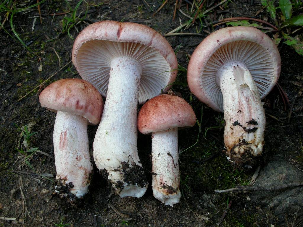 Hygrophorus erubescens (Fr.) Fr. Location: Fraser Experimental Forest, Grand Co., Colorado, USA Observation Notes: Also identified at the NAMA 50th Anniversary Foray For more information about this, see the observation page at Mushroom Observer.